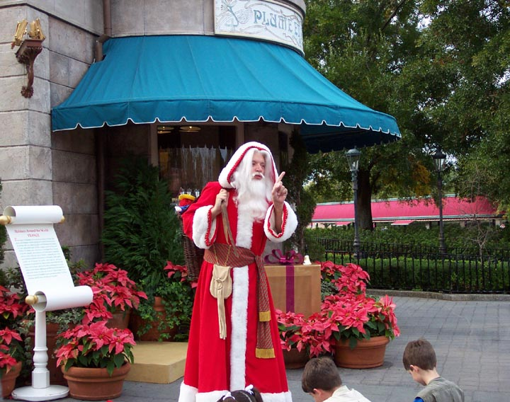 French Santa